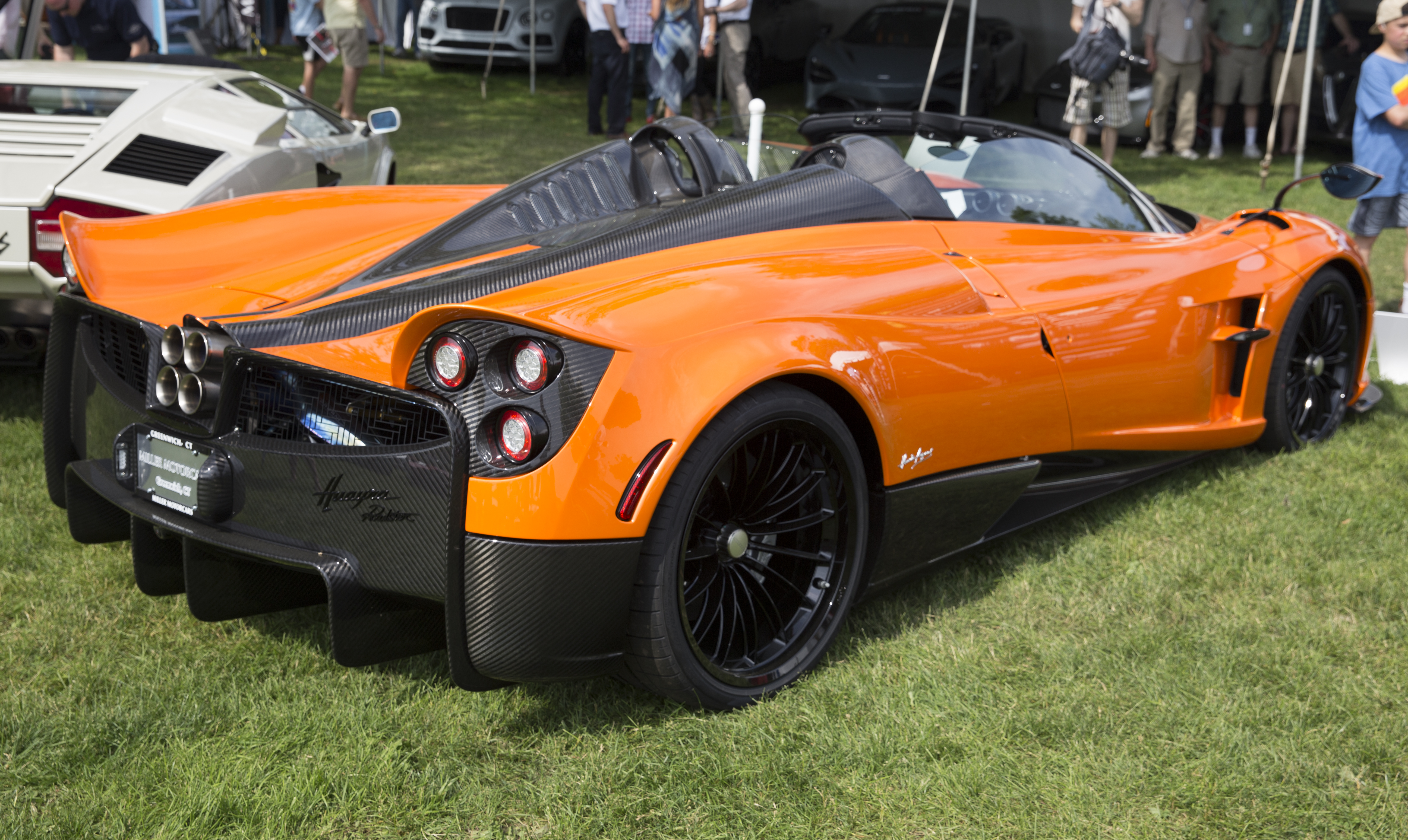 2018 Pagani Huayra Roadster at the 2018 Greenwich Concours d'Elegance. Anonymous owner.